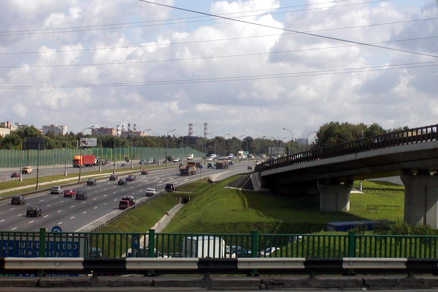 Photo of Moscow freeways (MKAD beltway X Leningradskoe Highway viewed NE along MKAD, the city of Khimki on the left)